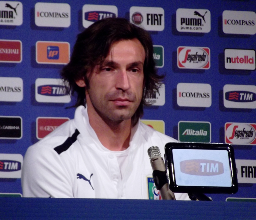 Andrea Pirlo during a Press Conference in Kraków on 26.06.2012.